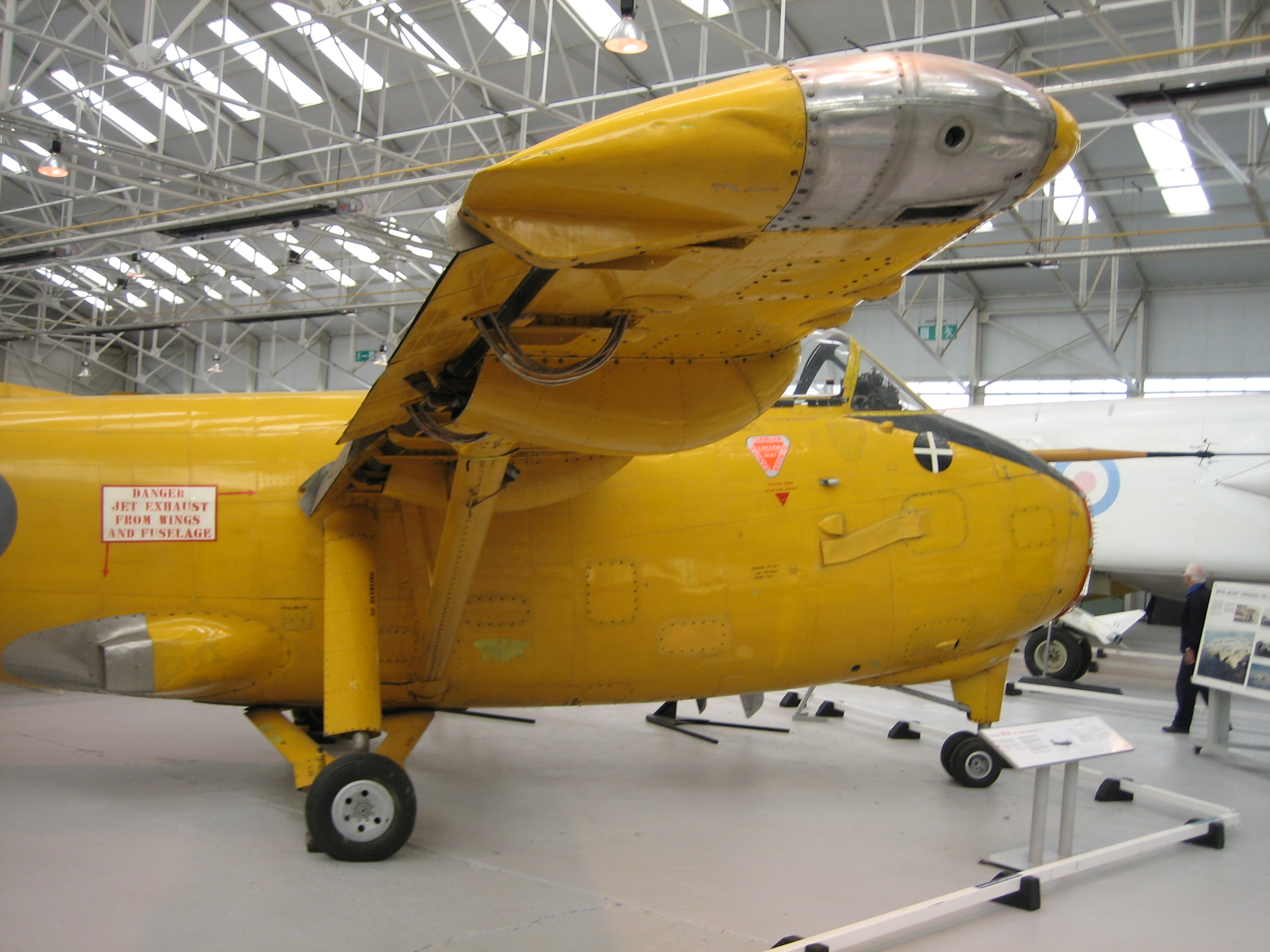 Hunting h126 at the RAF Museum Cosford